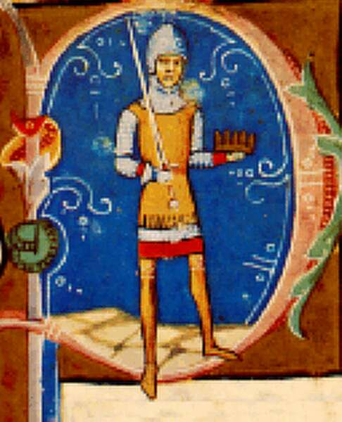 Peter Orseolo of Hungary. Image from the Hungarian Chronicum Pictum.